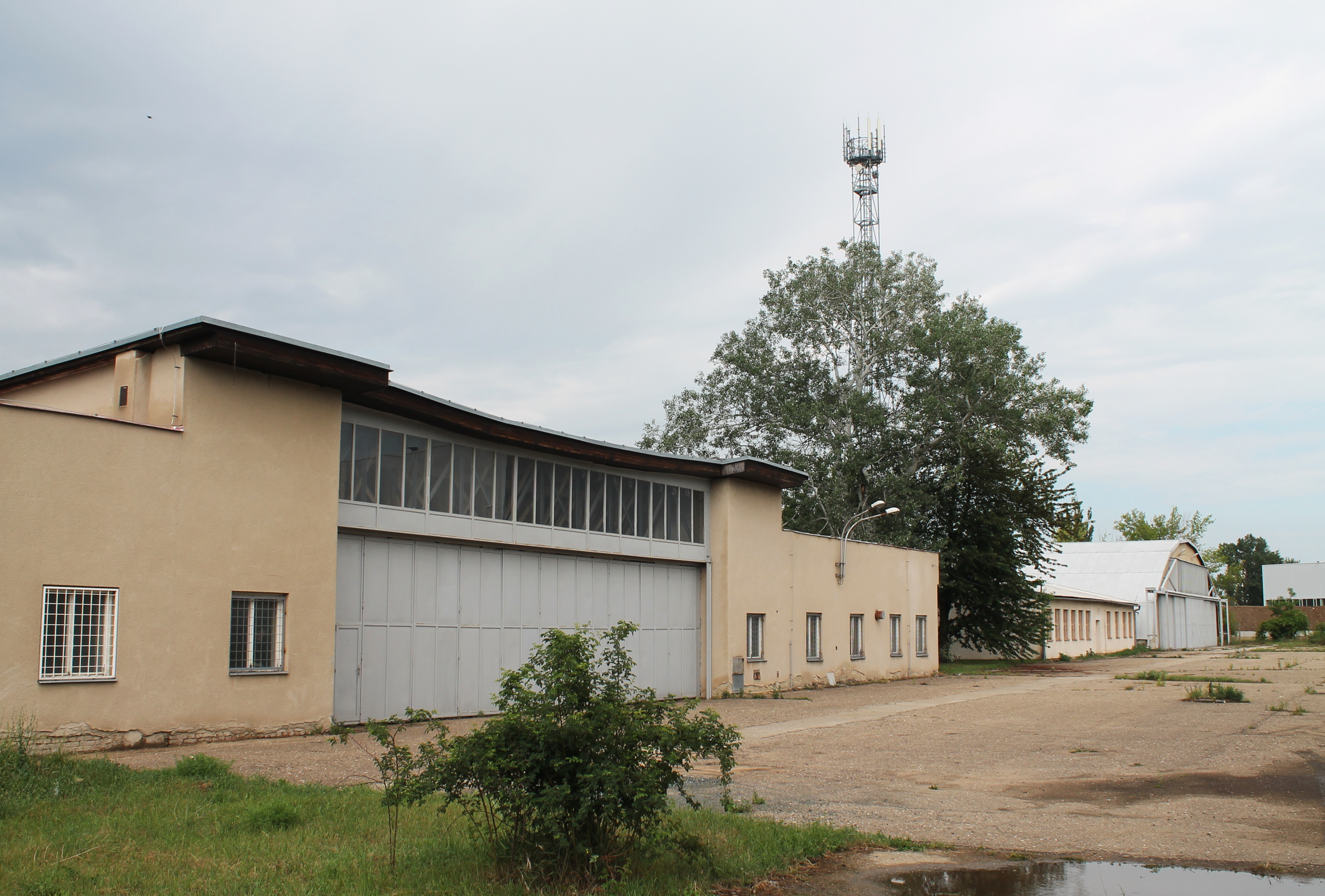 Former Brno-Černovice Airport, Černovice, Brno, Czech Republic